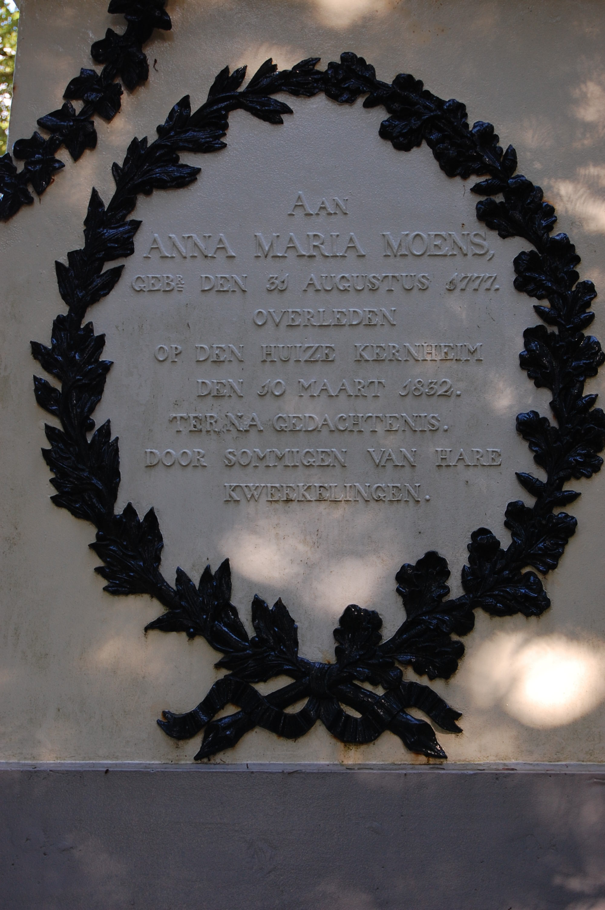 Memorial for Anna Maria Moens